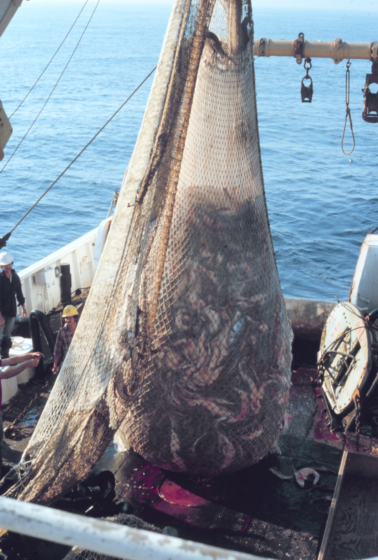 Cod end of the trawling net just before discharging fish on deck during stock assessment surveys.